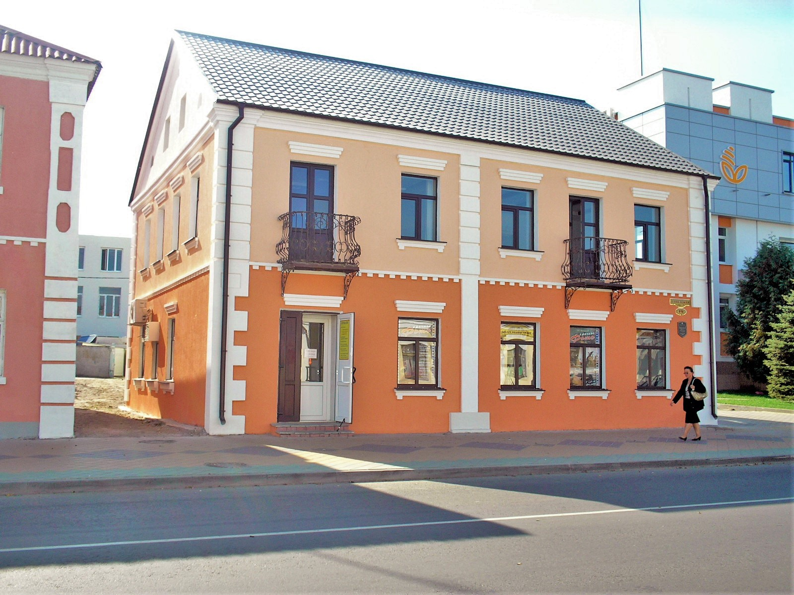 Kobryn_after_Dozhinki (Sovetskaya street)